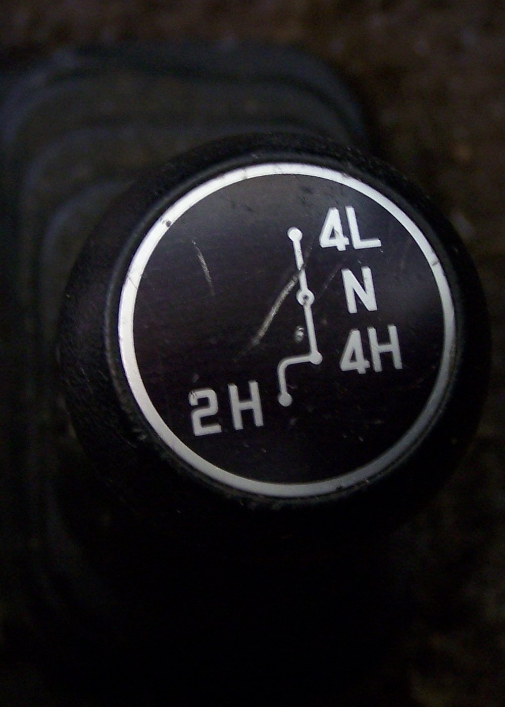 The selection lever to change from 2wd into 4wd high & low in a 1986 Mitsubishi Pajero